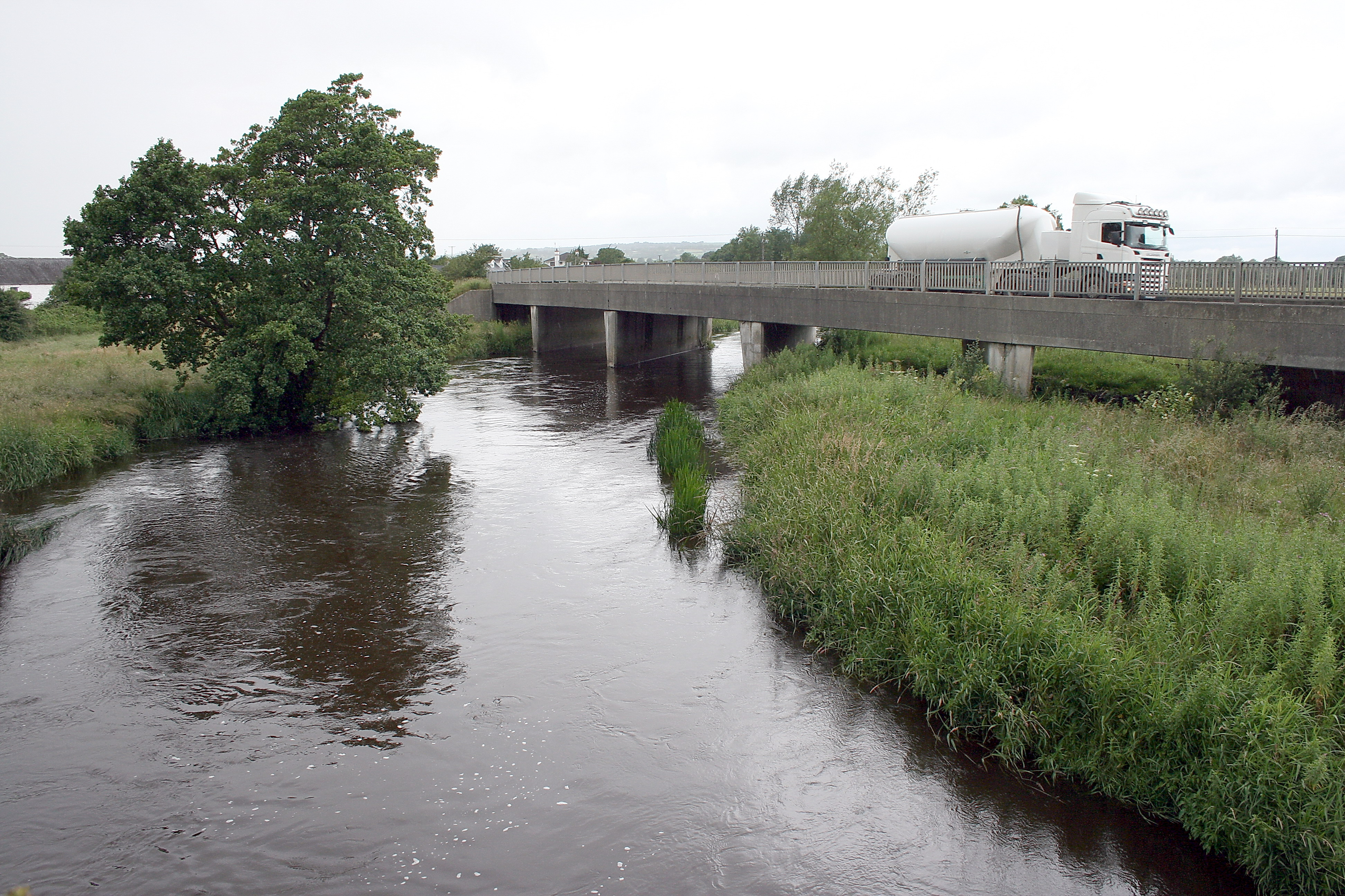 N77 over the River Nore at Ballyragget, County Kilkenny, Ireland